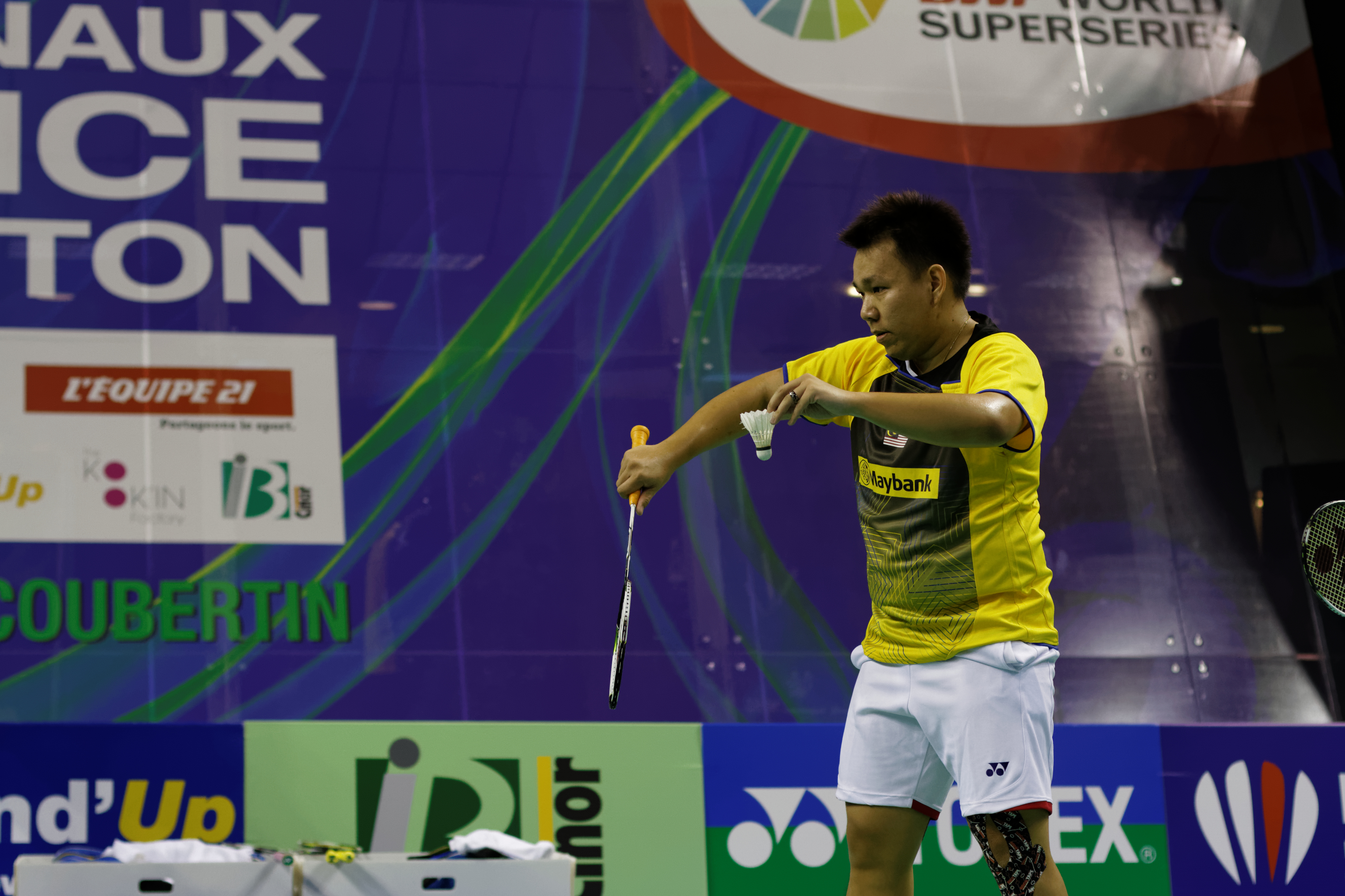 2013 French open. Men's doubles quarterfinal. Hoon Thien How and Tan Wee Kiong vs Lee Yong-dae and Yoo Yeon-seong.